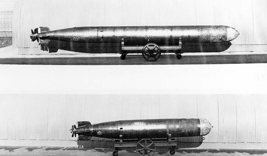 U.S. Navy submarine and aircraft torpedos developed by the Newport Torpedo Station, Rhode Island (USA), before and during World War II: The upper photograph shows the Mark XIV Model 3 type Submarine Steam Torpedo, and the externally identical Mark XXIII type. These torpedos were 20' 6 long (6.28 m) with a diameter of 21' (53.3 cm). The lower photograph shows the Mark XIII type Aircraft Torpedo, which was also used on Motor Torpedo (PT) Boats. This type of torpedo was 13' 5 long (4.14 m) with a diameter of 22' 4 (56.9). A shroud ring was later added around the tail fins of the Mark XIII torpedo.